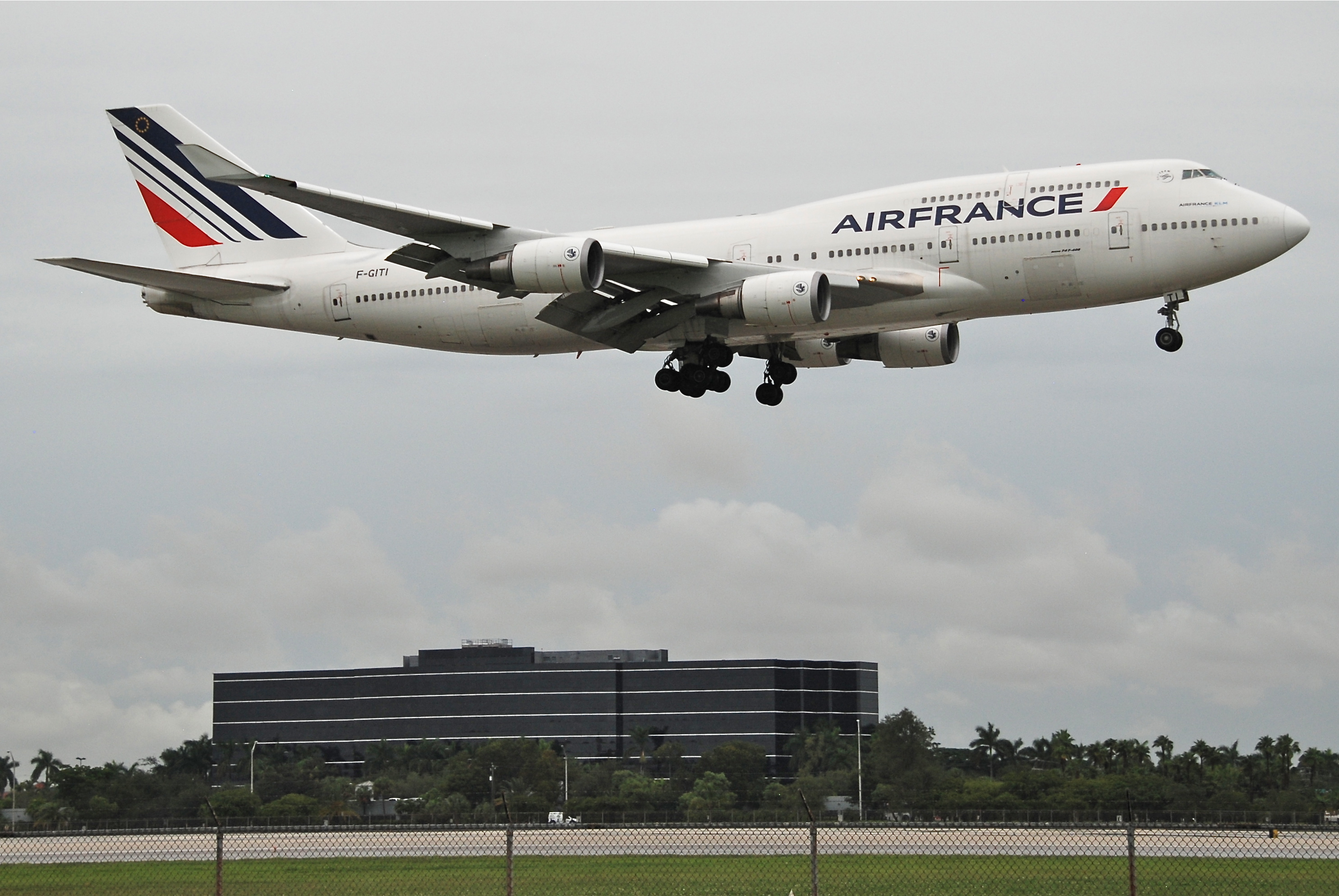 Air France Boeing 747-400; F-GITI@MIA;17.10.2011/626lw